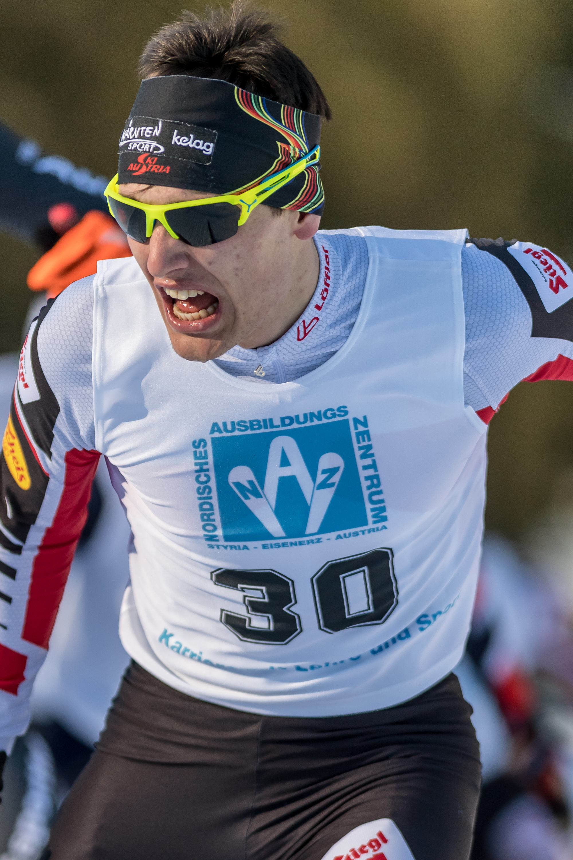 11/2/2017 Eisenerz, FIS Continental Cup Nordic Combined.